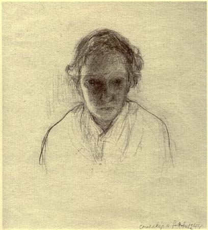 Self-Portrait of Ilka Gedő made in 1944 in the Budapest Ghetto